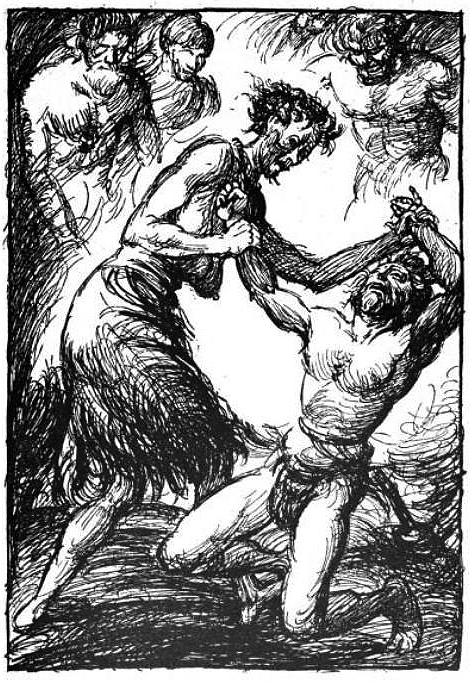 Elli and Thor (1919) by Robert Engels. Title not given in work. Elli, old age personified, wrestles and defeats Thor.